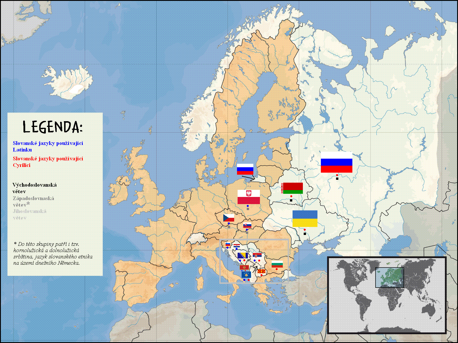 Map of Slavic languages with classes and writing system.